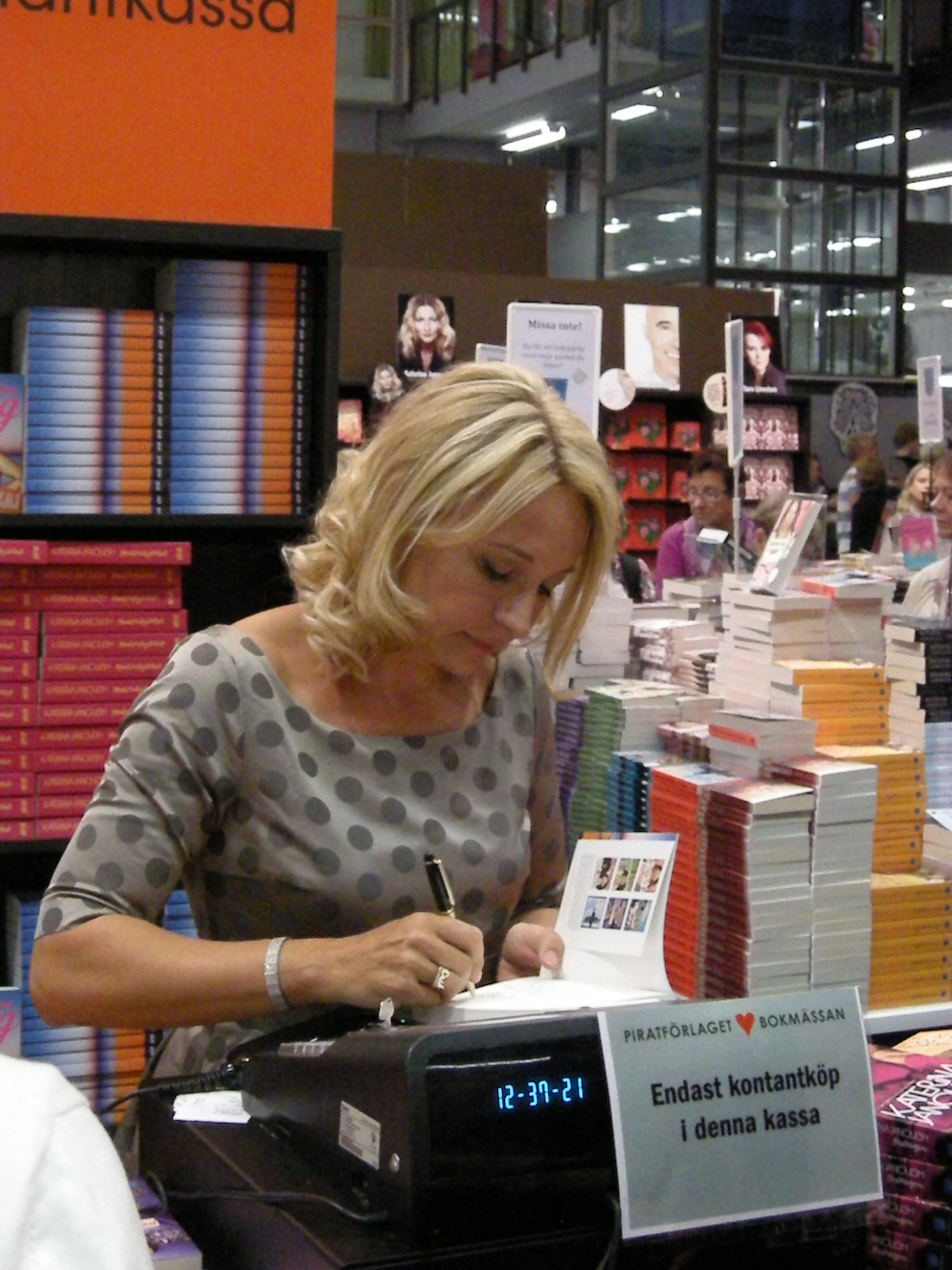 Swedish writer and actor Martina Haag at Göteborg Book Fair 2012